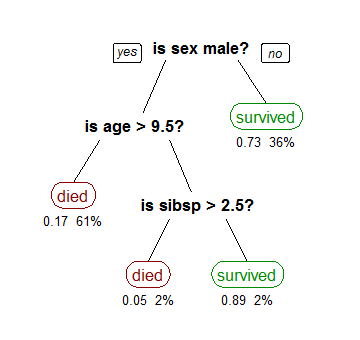 An example of a CART classification tree